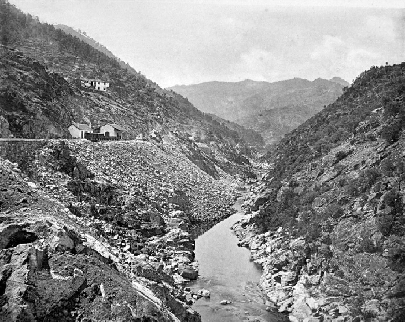 São Lourenço Railway Station, that served the springs with the same name, in Portugal. This station was later downgraded to a a halt.